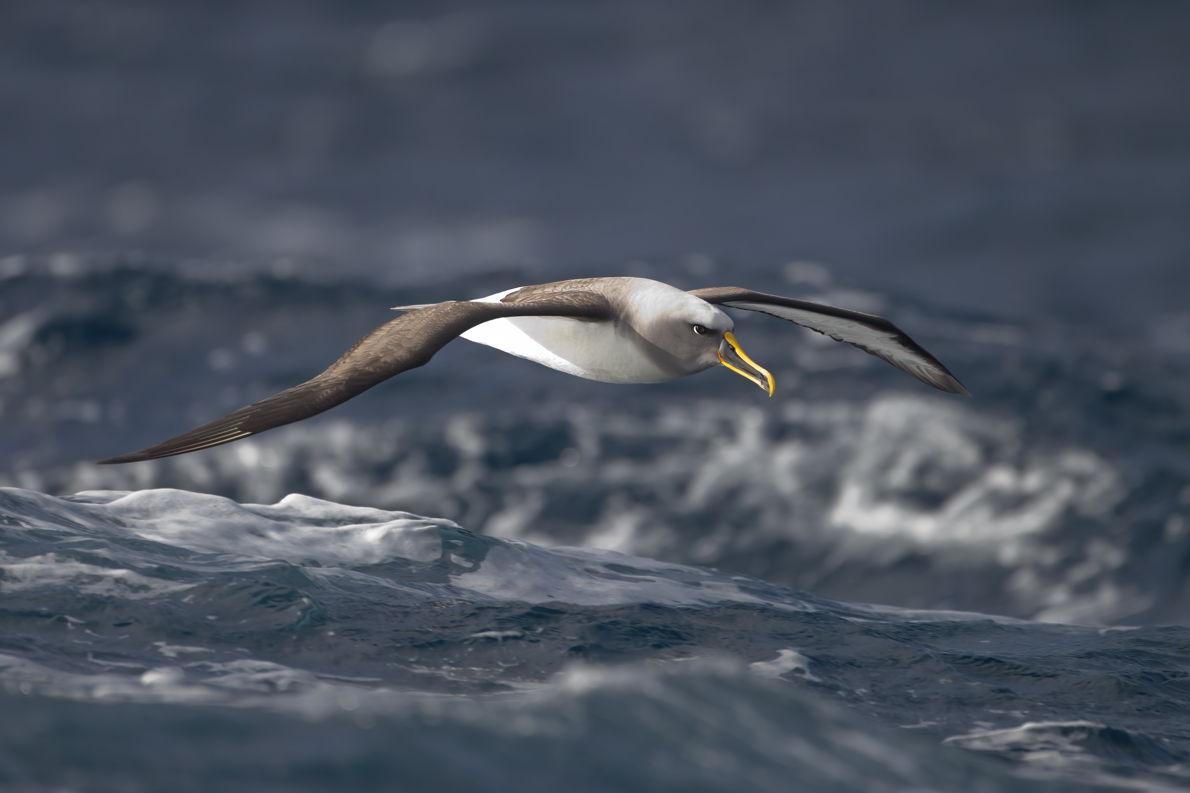 Buller's Albatross (Thalassarche bulleri), East of the Tasman Peninsula, Tasmania, Australia.